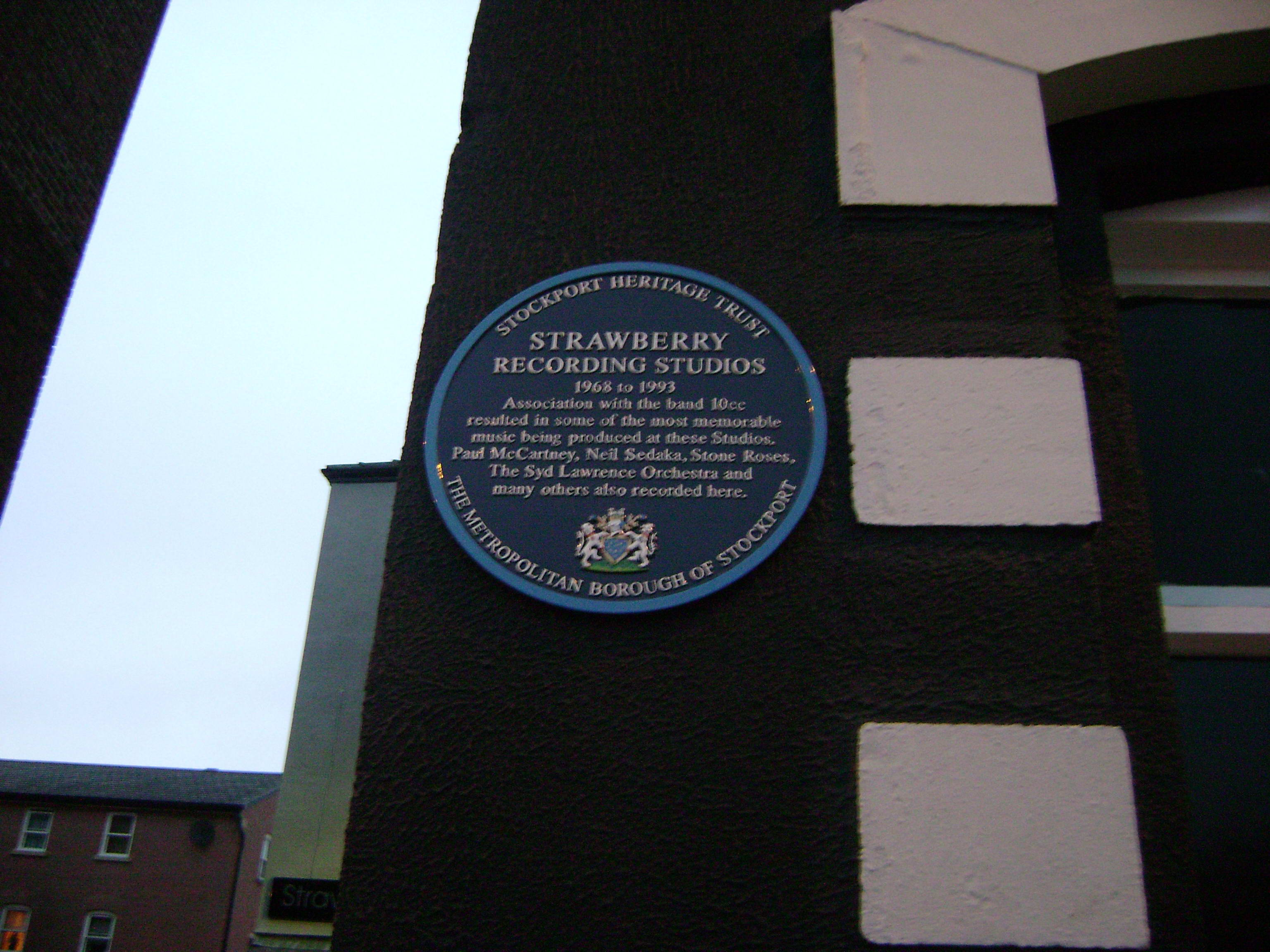 The memorial plaque mounted by the Stockport Heritage Trust in 2007.